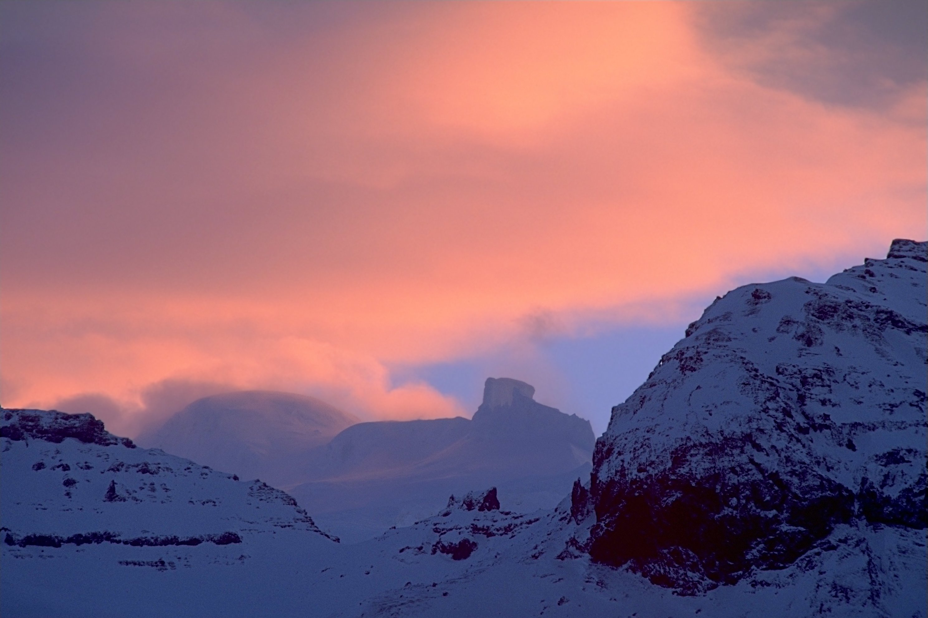 Dawn at Hvannadalshnúkur, Iceland Photo was taken using the following technique: Film: Fuji Velvia Lens: 4/70-210 Filter: none Body: Minolta 7 Support: Manfrotto 190B Image with Information in English Bild mit Informationen auf Deutsch